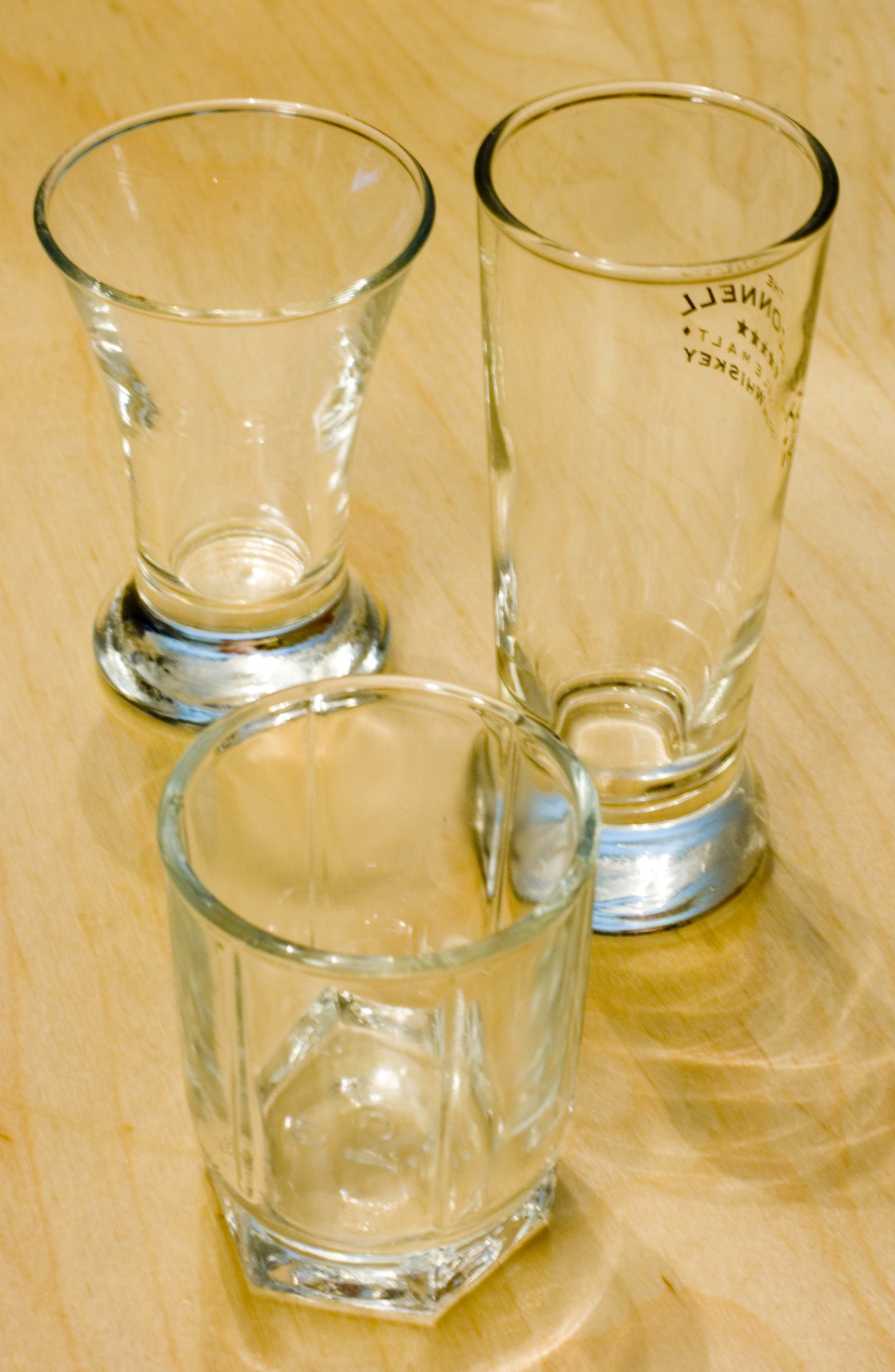 A trio of three typical shot glasses.